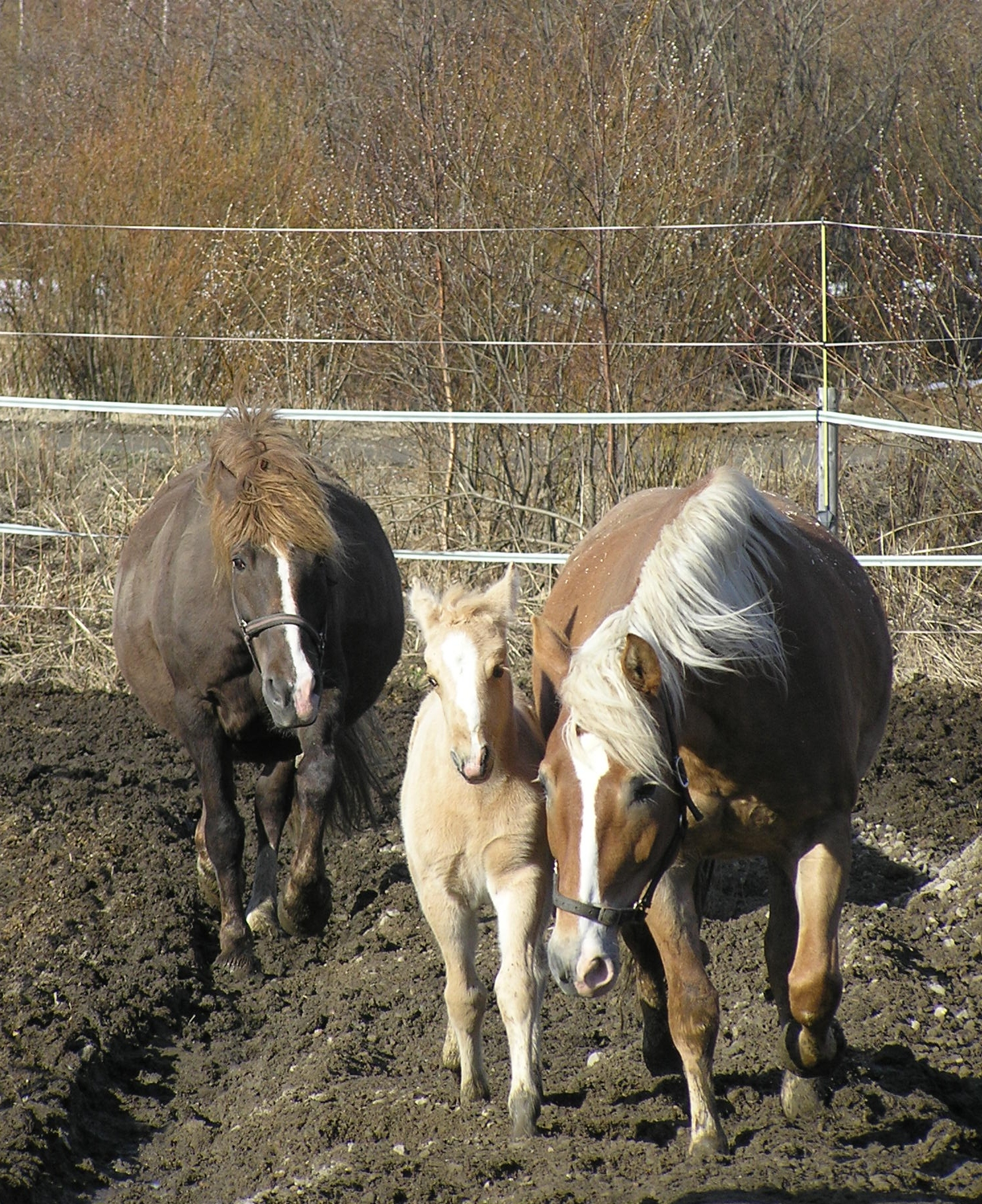 Two mares and foal jogging around on paddock in early spring. All three exhibit different shades of feomelanine.